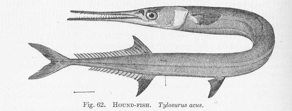 Hound-Fish. Tylosurus acus Subject: Tylosurus Tag: Fish